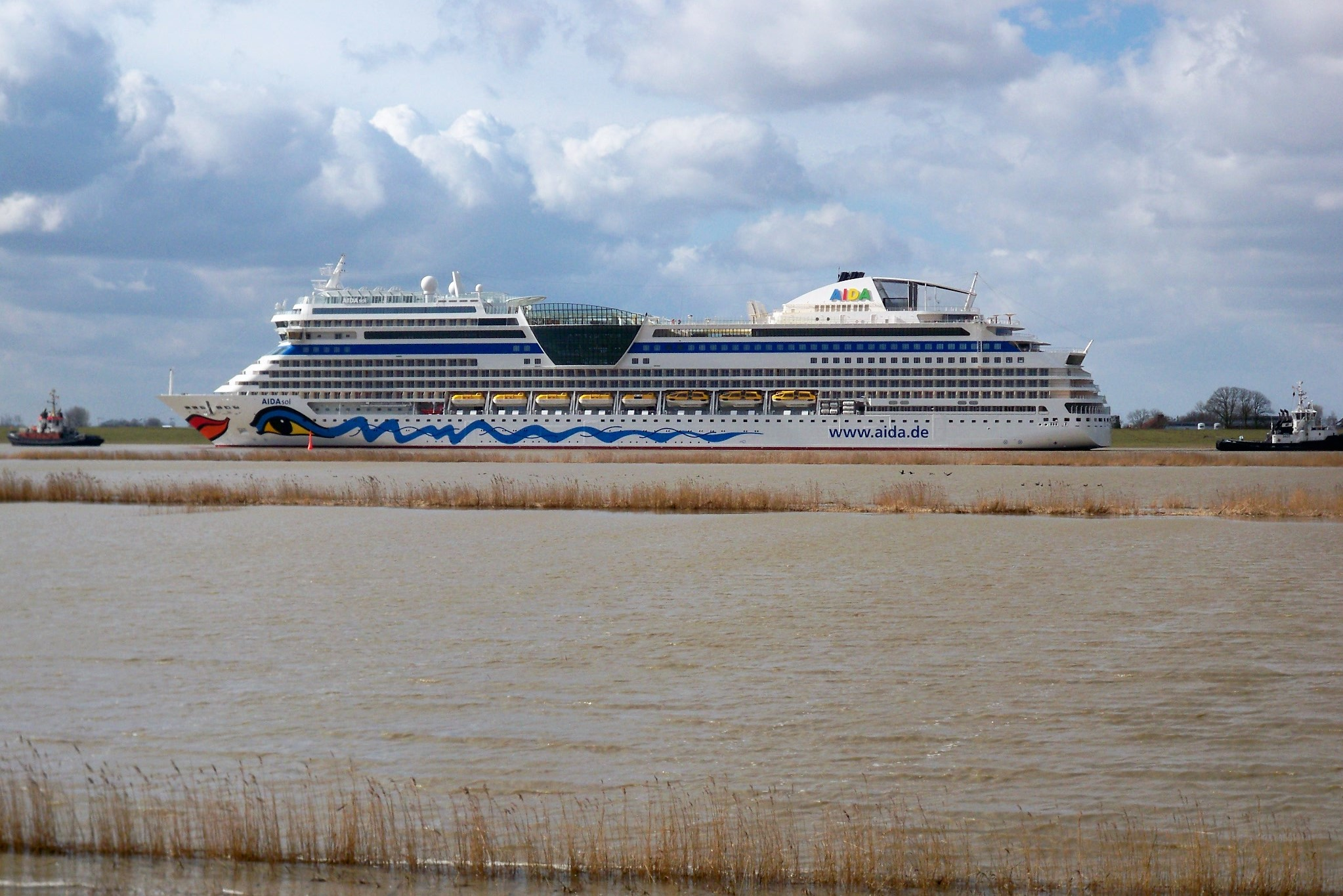 AIDAsol underway from the shipyard in Papenburg to the North Sea